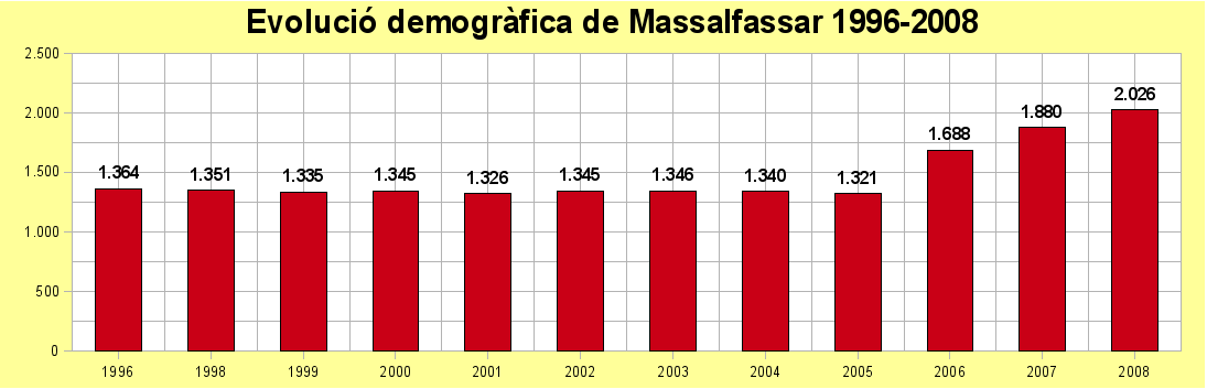 Massalfassar's population (1996-2008).